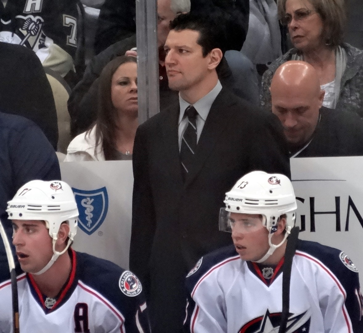 Columbus Blue Jackets assistant coach Dan Hinote on the bench during a game against the Pittsburgh Penguins, November 1, 2013, at Consol Energy Center in Pittsburgh, PA.